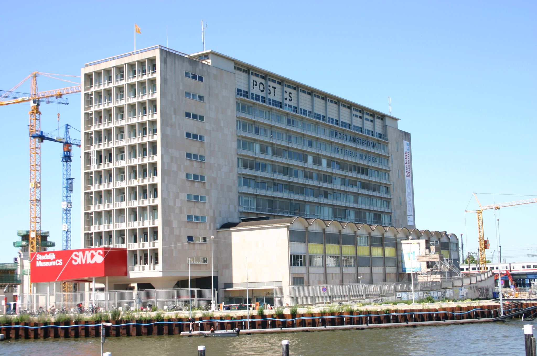 CS Museum, in the old postal head office. To the left is now the Centrale Bibliotheek (Central Library), still under construction in the photo.